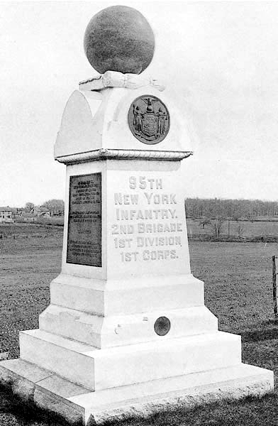 Monument to the 95th New York Volunteer Regiment at Gettysburg on Reynolds Avenue south of the Railroad Cut, dedicated on July 1, 1893. From Final Report on the Battlefield of Gettysburg (New York at Gettysburg) by the New York Monuments Commission for the Battlefields of Gettysburg and Chattanooga. Albany, NY: J. B. Lyon Company, 1902.